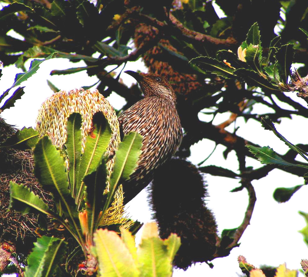 Western Wattlebird (Anthochaera lunulata), Perth, Australia